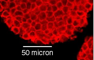 Own edit of Image:Cellsize.jpg